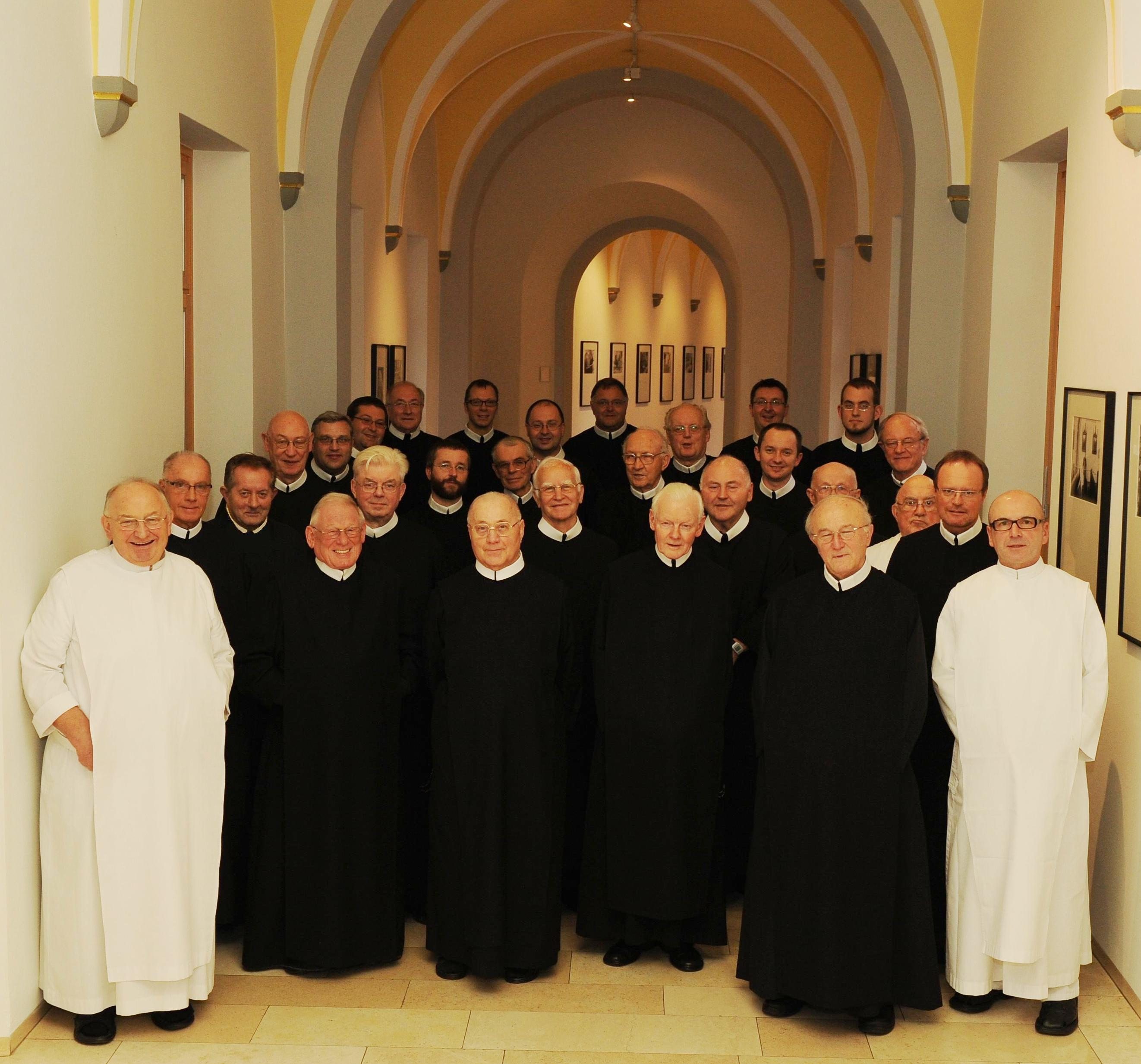 Brothers of Mercy in Trier